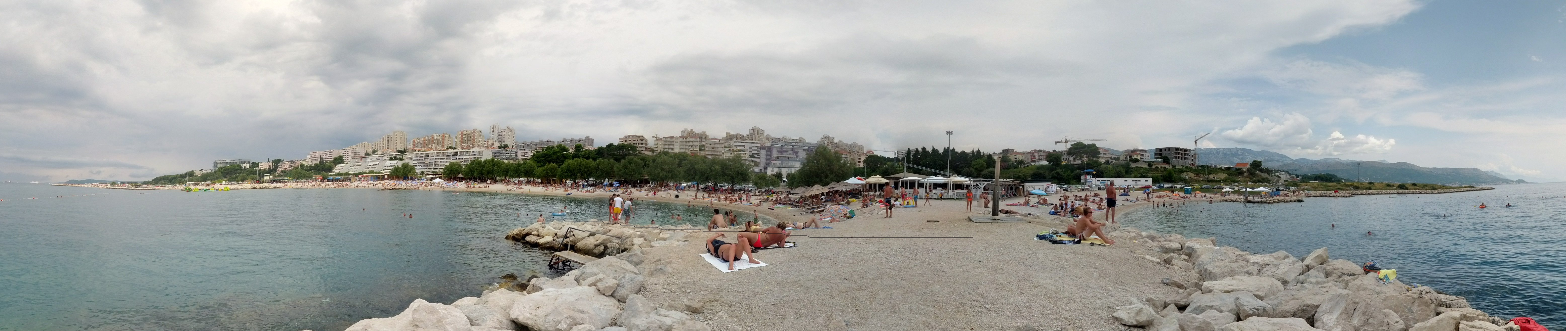 panorama of beach in Mertojak, Split, Croatia